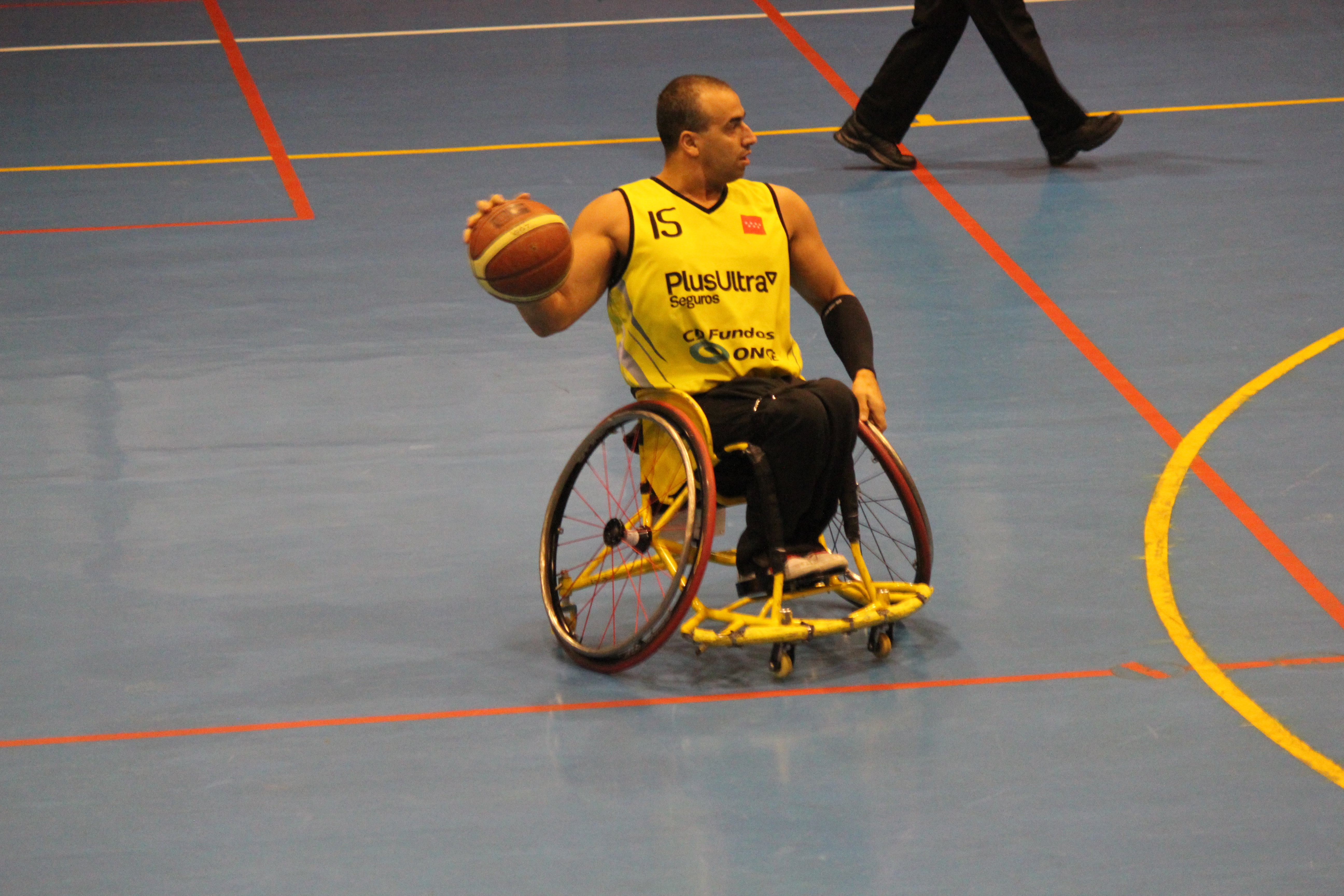 ONCE v Getafe, Madrid, November 9, 2013